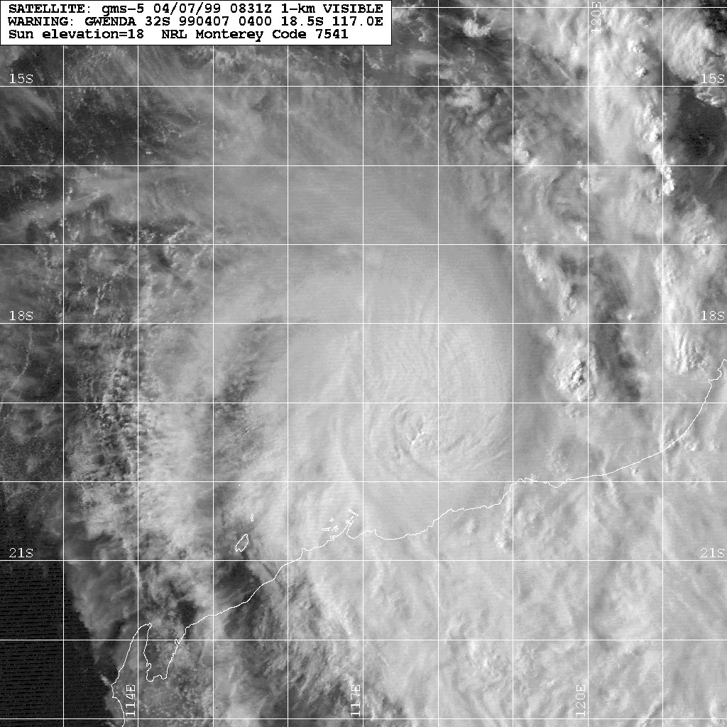 Satellite image of Cyclone Gwenda near landfall on 7 April 1999